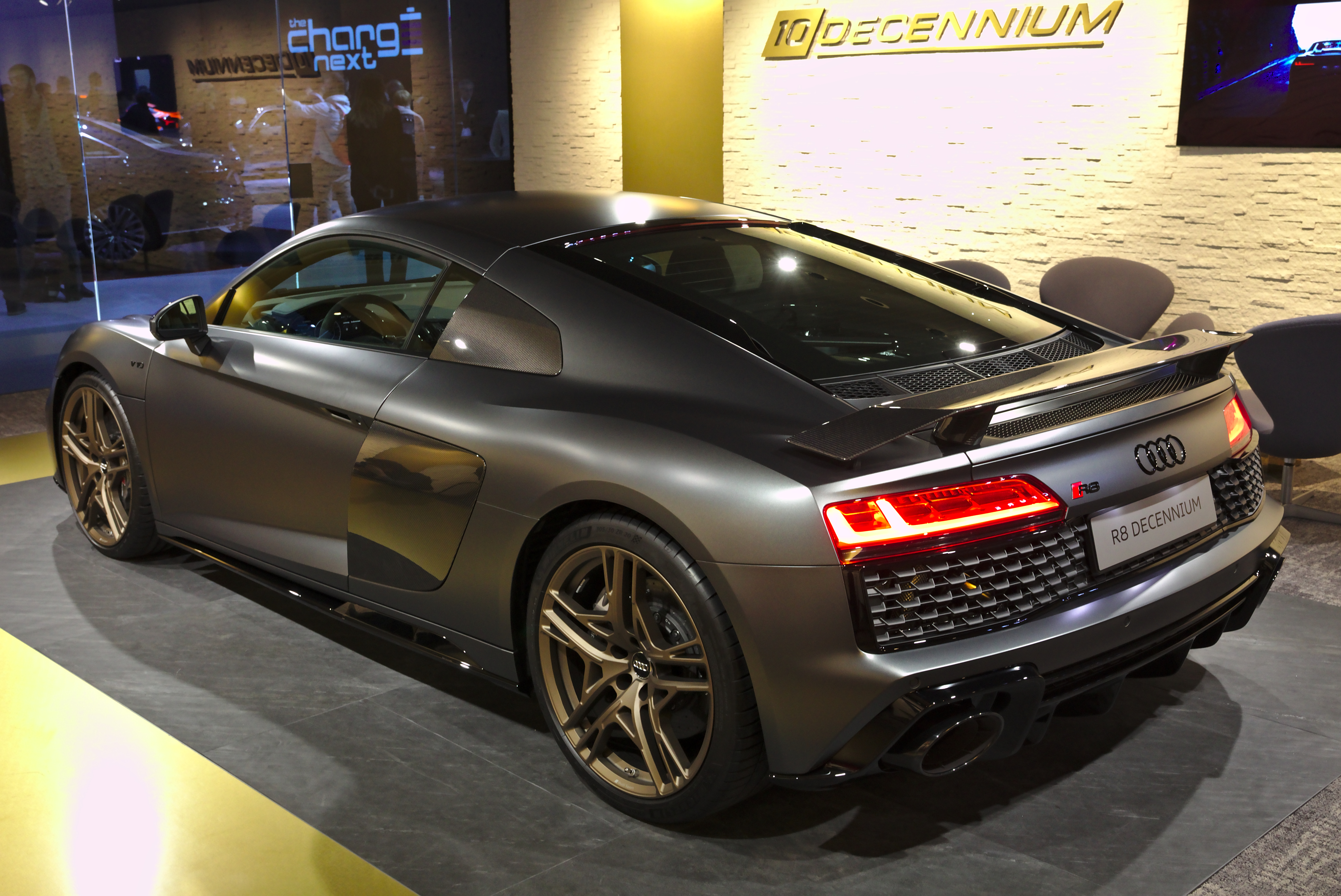 Audi R8 V10 Decennium at Geneva Motor Show 2019